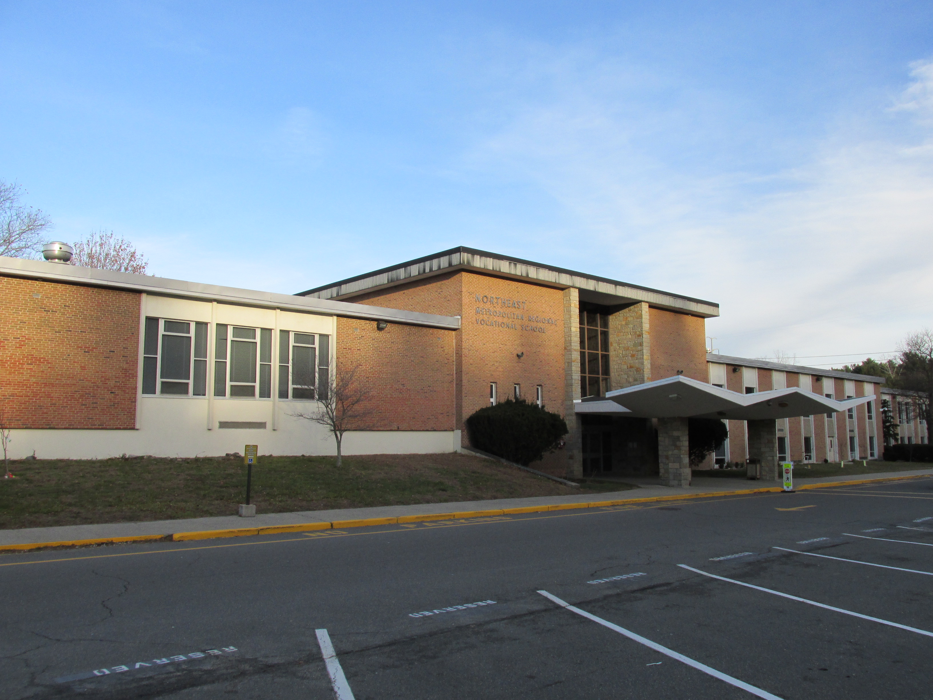 Northeast Metro Regional Vocational School, Wakefield Massachusetts